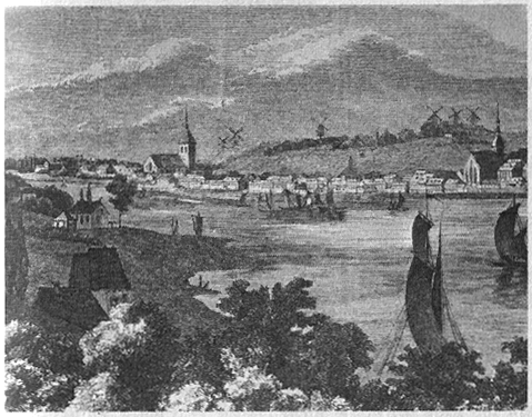 City of Flensburg, c. 1830